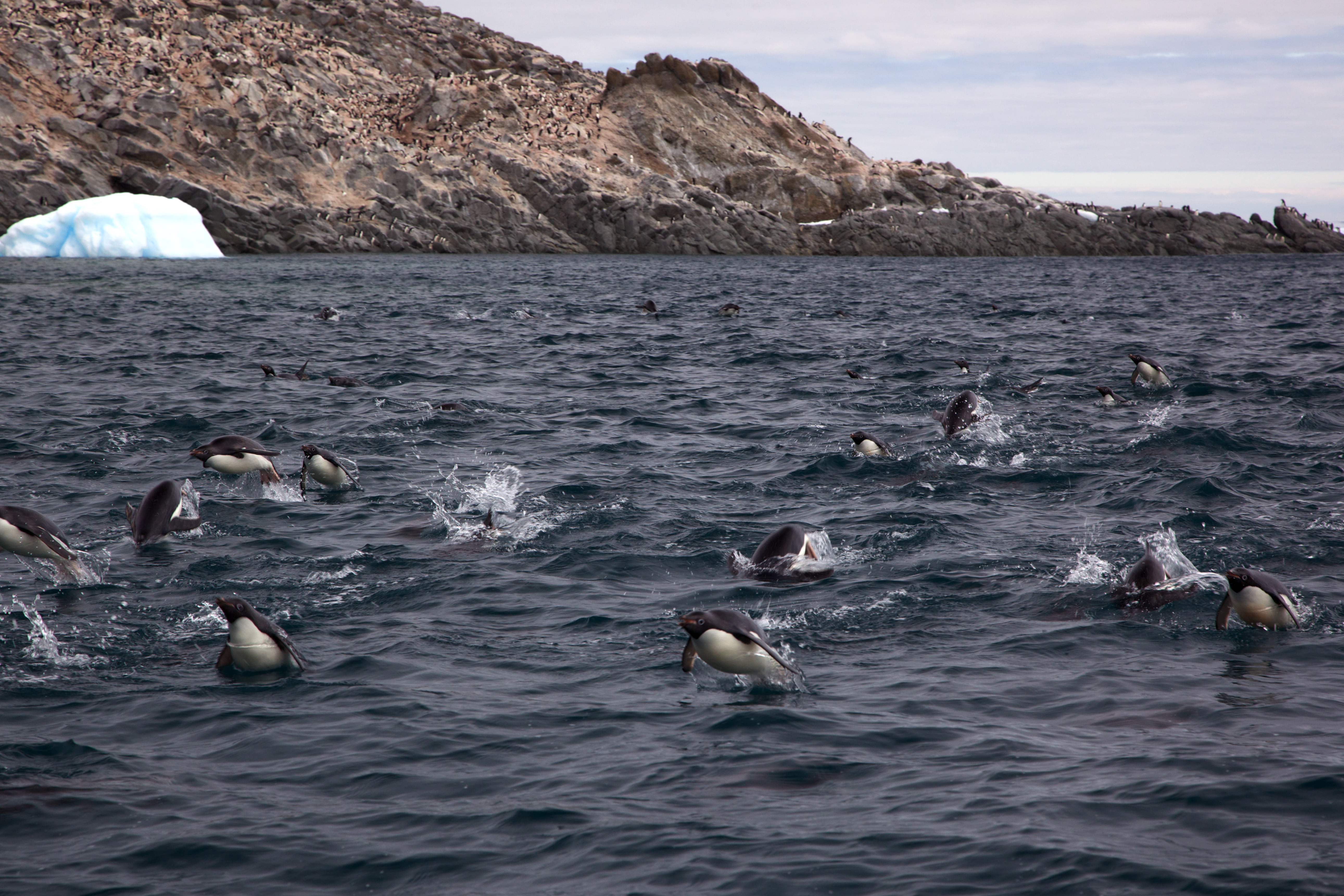 A group of porpoising Adelie penguins (Pygoscelis adeliae).